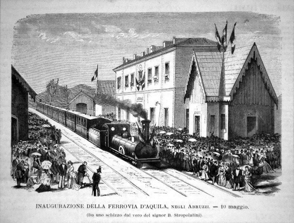 Inaugural day of L'Aquila train station